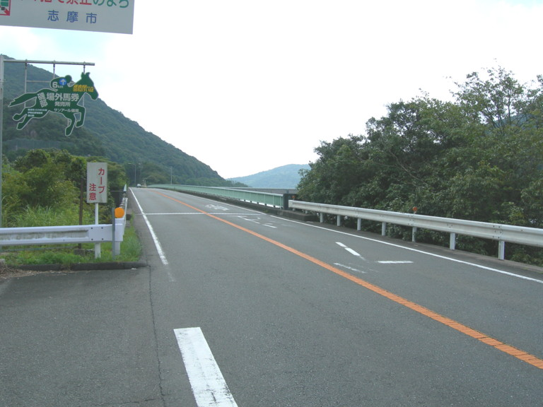 Mie prefectural route No.32, between Ise city and Shima city in Japan.